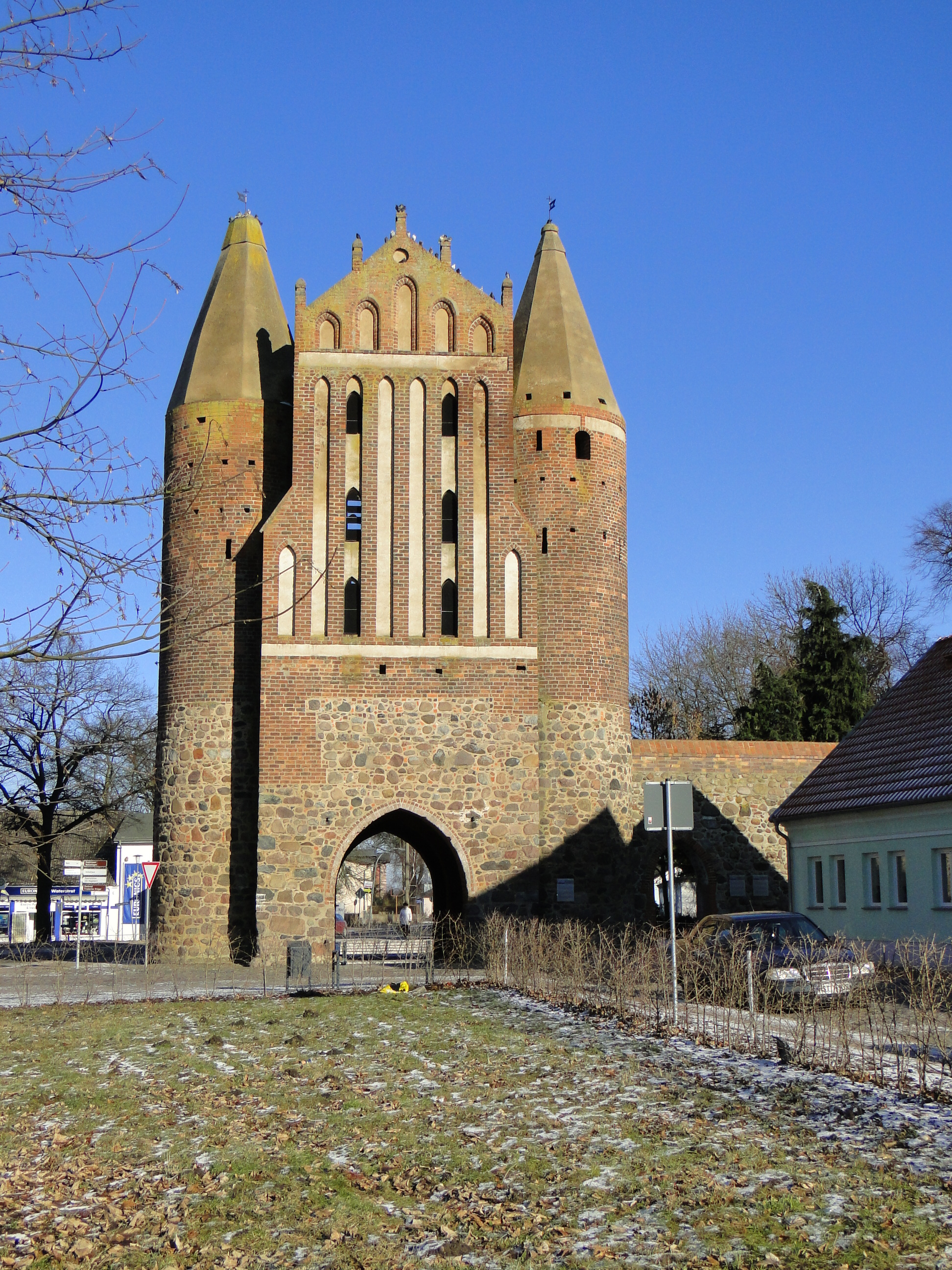 City gate Anklamer Tor in Friedland, district Mecklenburg-Strelitz, Mecklenburg-Vorpommern, Germany